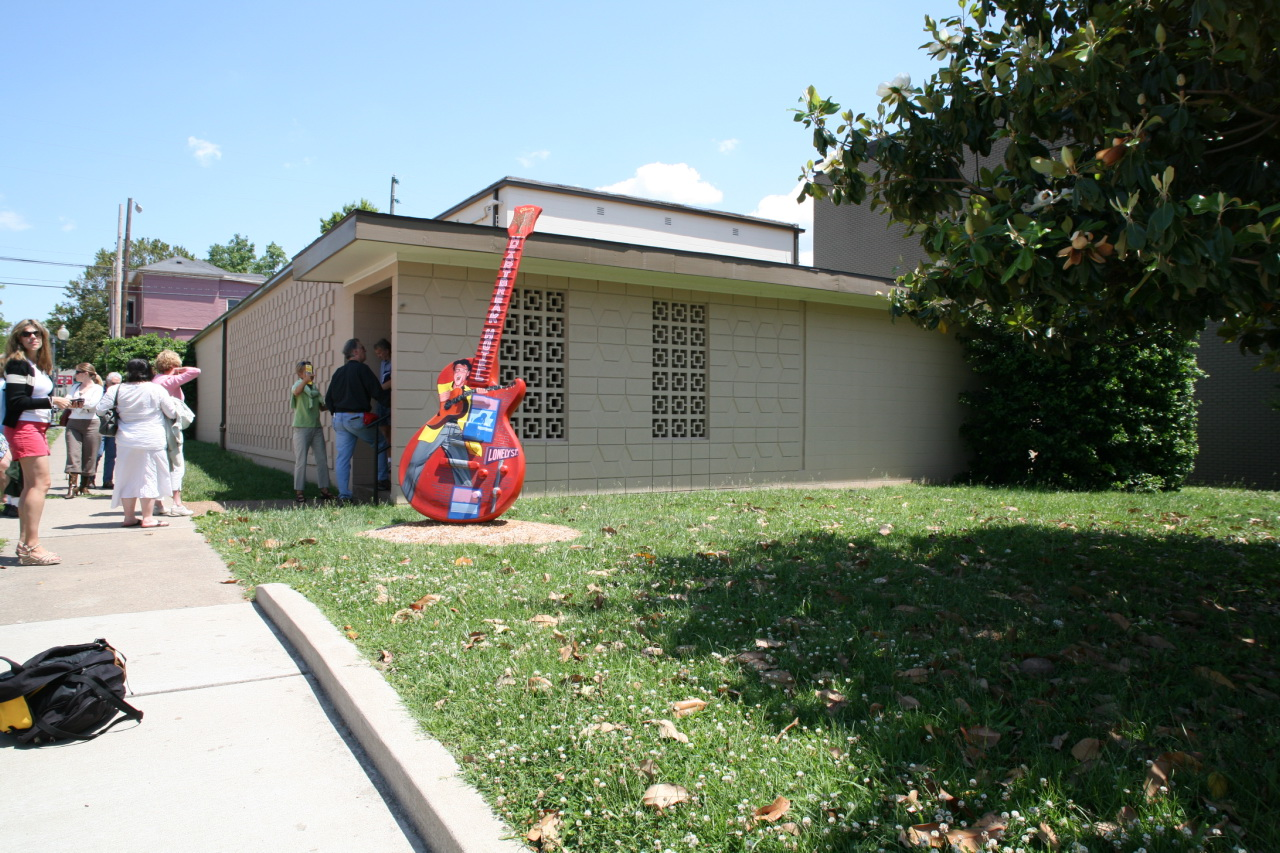 RCA Studio B Built by Dan Maddox in 1957, RCA Studio B first became known as one of the cradles of the "Nashville Sound" in the 1960s. A sophisticated style characterized by background vocals and strings, the Nashville Sound both revived the popularity of country music and helped establish Nashville as an international recording center. Hitmakers in Studio B have included Arnold, Jennings, Bobby Bare, Parton, Reeves, Willie Nelson, and Floyd Cramer, among others. For many years, Country Music Hall of Fame inductee Chet Atkins managed RCA's Nashville operation and produced hundreds of hits in Studio B.